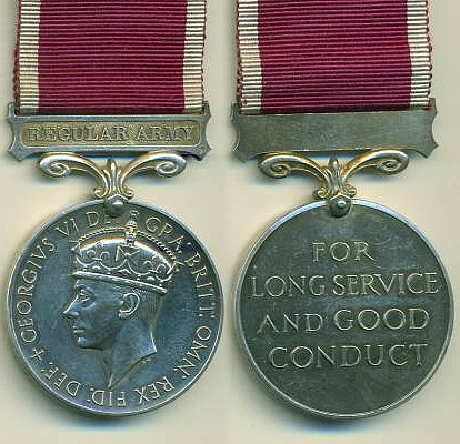 The second King George VI version of the Medal for Long Service and Good Conduct (Military)